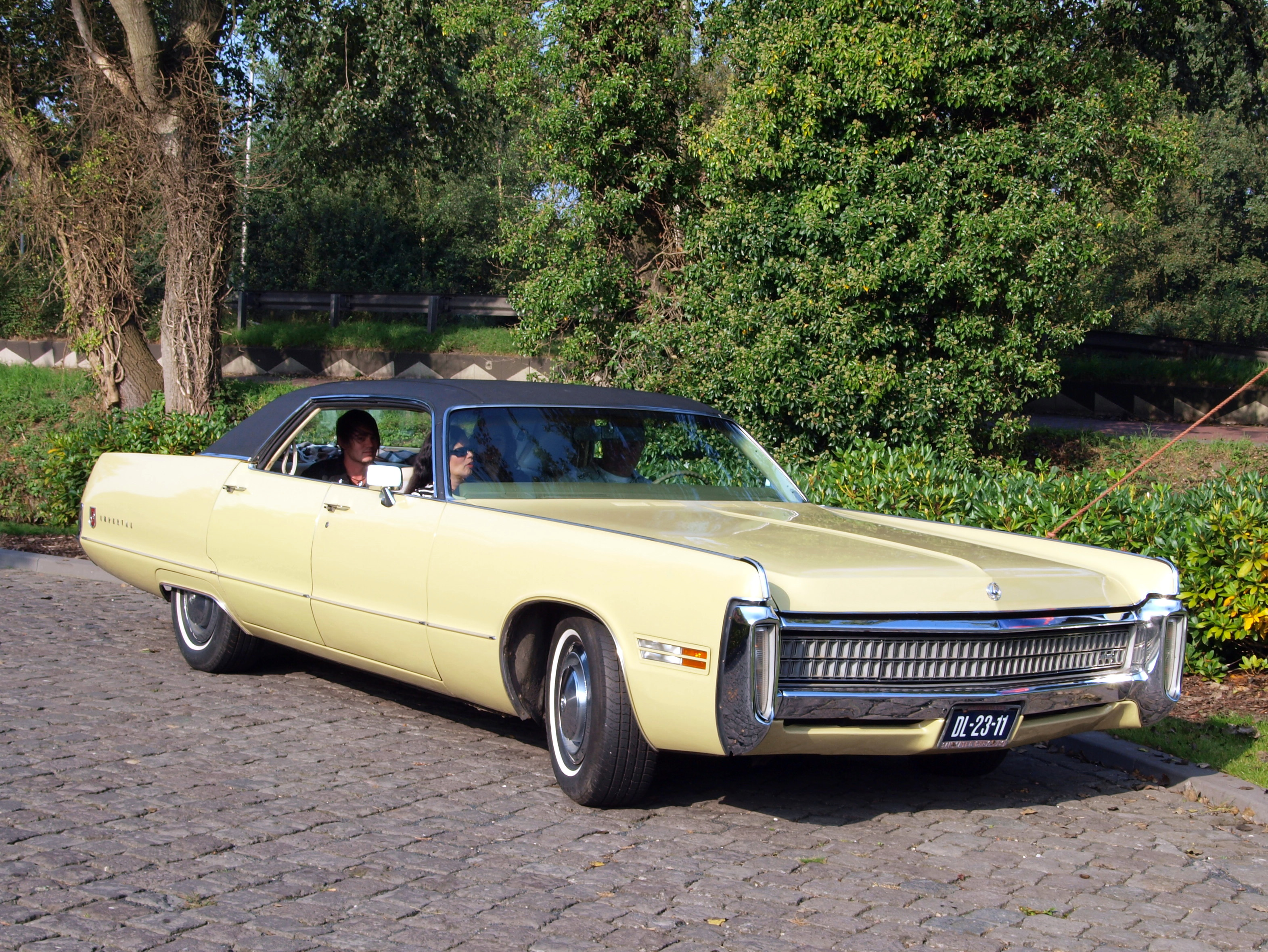 Photographed at the premmesis of the Louwman museum, The Hague, The Netherlands. OLYMPUS DIGITAL CAMERA